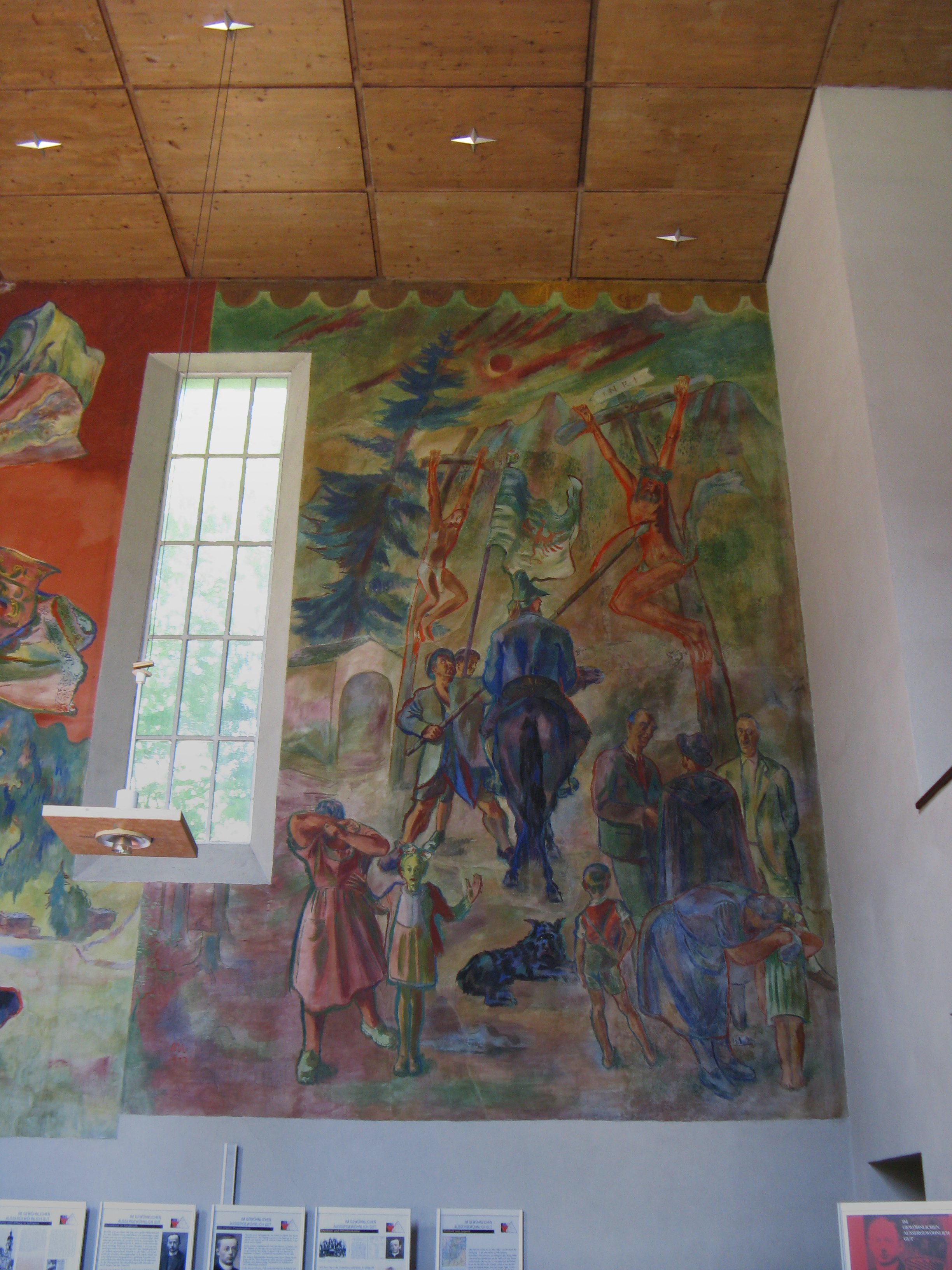 fresco in Theresien church in Hungerburg quarter in Innsbruck